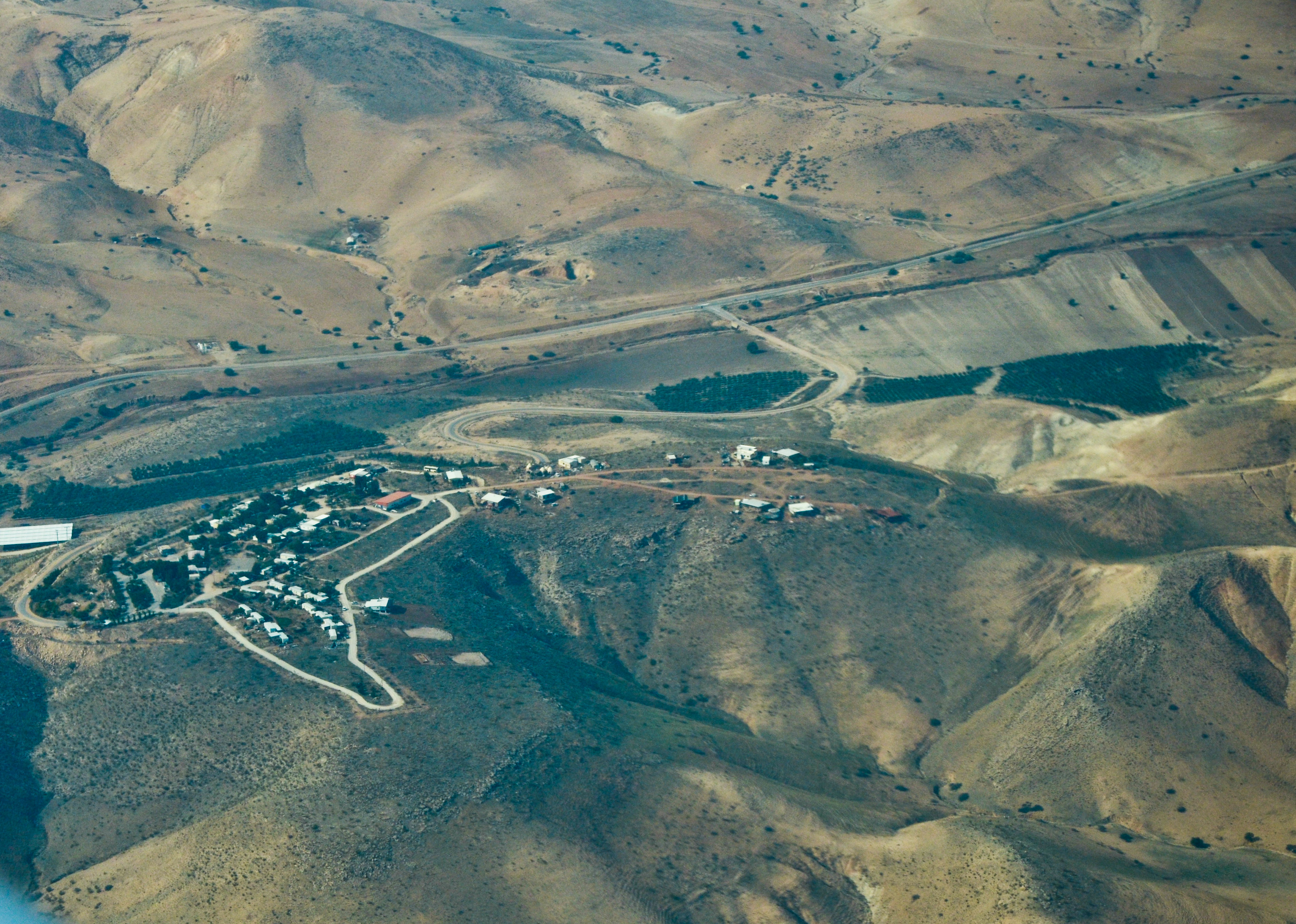 Shot taken from plane flown by Ilan Maytal